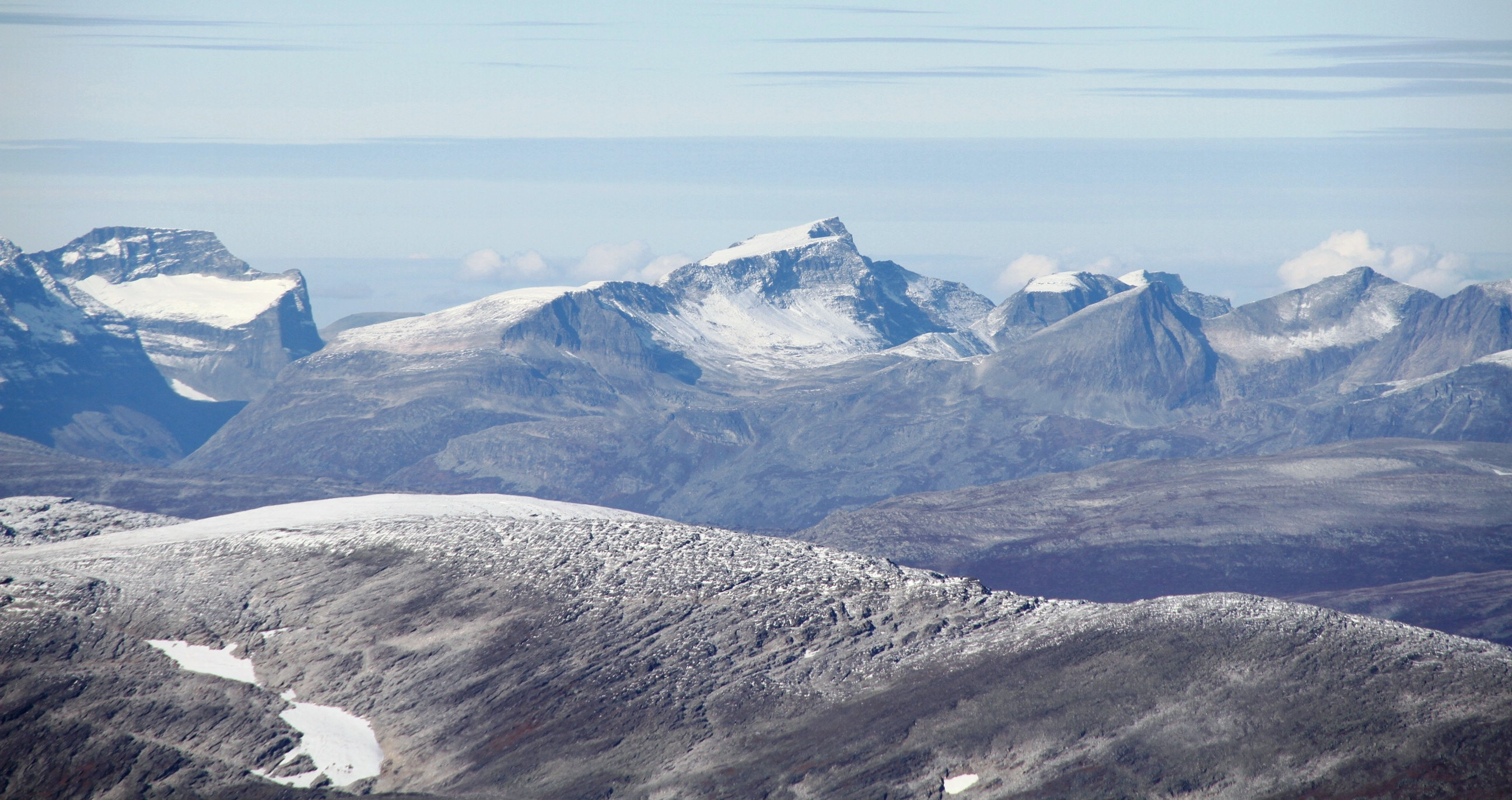 Image of the "Sunndalsfjella" Mountains in Sunndal municipality, Møre og Romsdal county, west Norway. The image is taken with zoom from the top of the "Snøhetta" mountain in Oppland county.